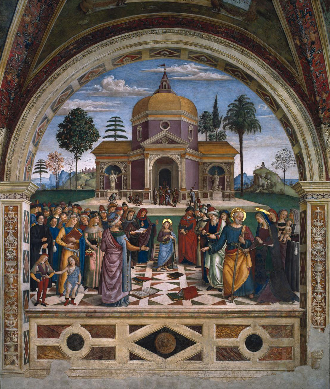 Dispute in the Temple, Pinturicchio, Spello, Umbria